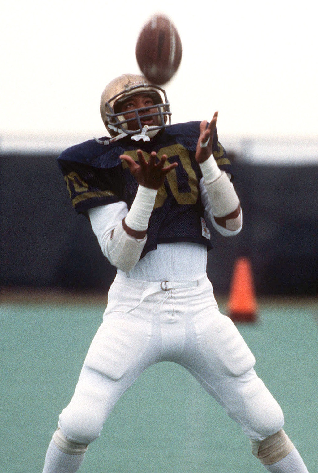 US Naval Academy Midshipman First Class Napoleon "Nap" McCallum practices with a coach. An All-American football player and a sixth-place finisher in the 1983 Heisman Trophy contest, McCallum holds 16 Naval Academy football records. Location: Annapolis, Maryland